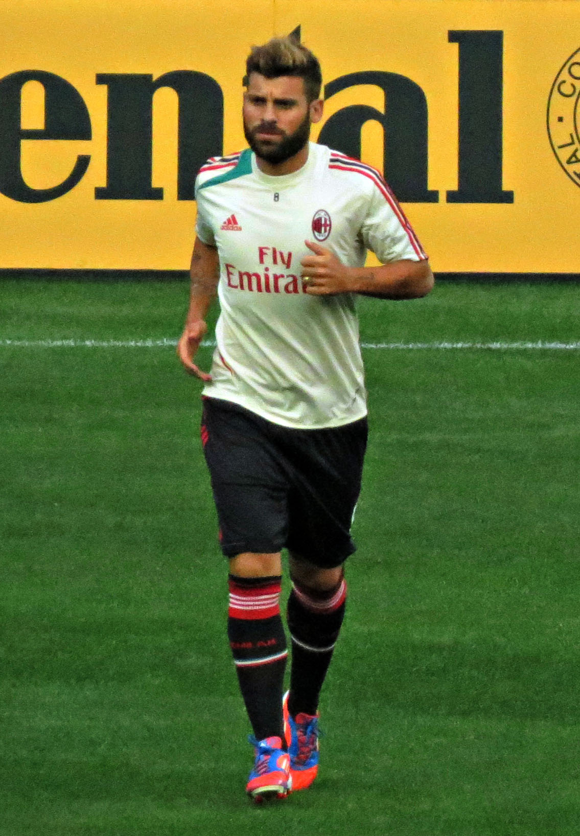 Italian midfileder Antonio Nocerino warming up with AC Milan for an exhibition game vs Real Madrid, Yankee Stadium, New York City (New York, United States), August 8, 2012.